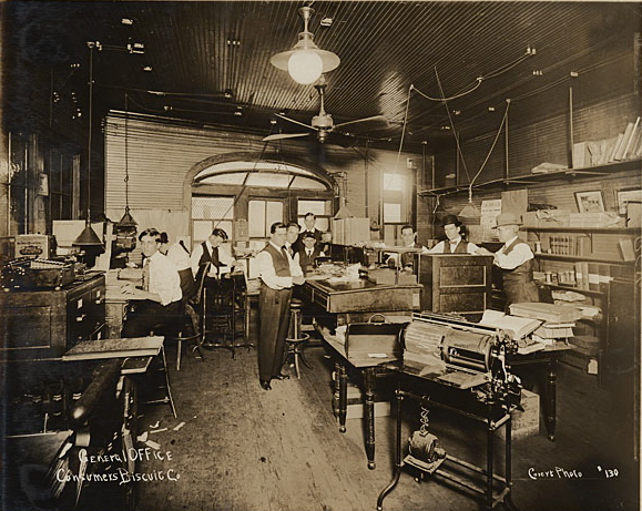 General Office, Consumer Biscuit Co., New Orleans, photograph by Covert, 1917. There is a Multigraph in the foreground. Per 1917 Soards City Directory of New Orleans: 525-536 Fulton Street; 527-537 South Front Street.